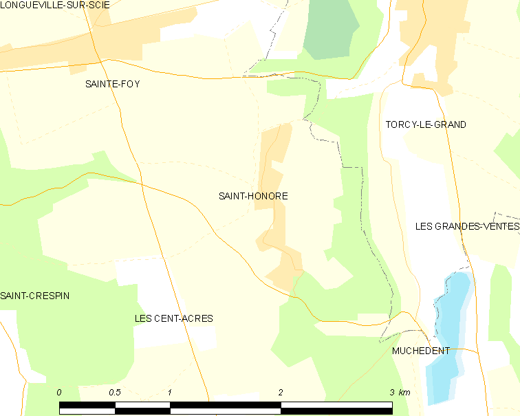 Map of French municipality Saint-Honoré